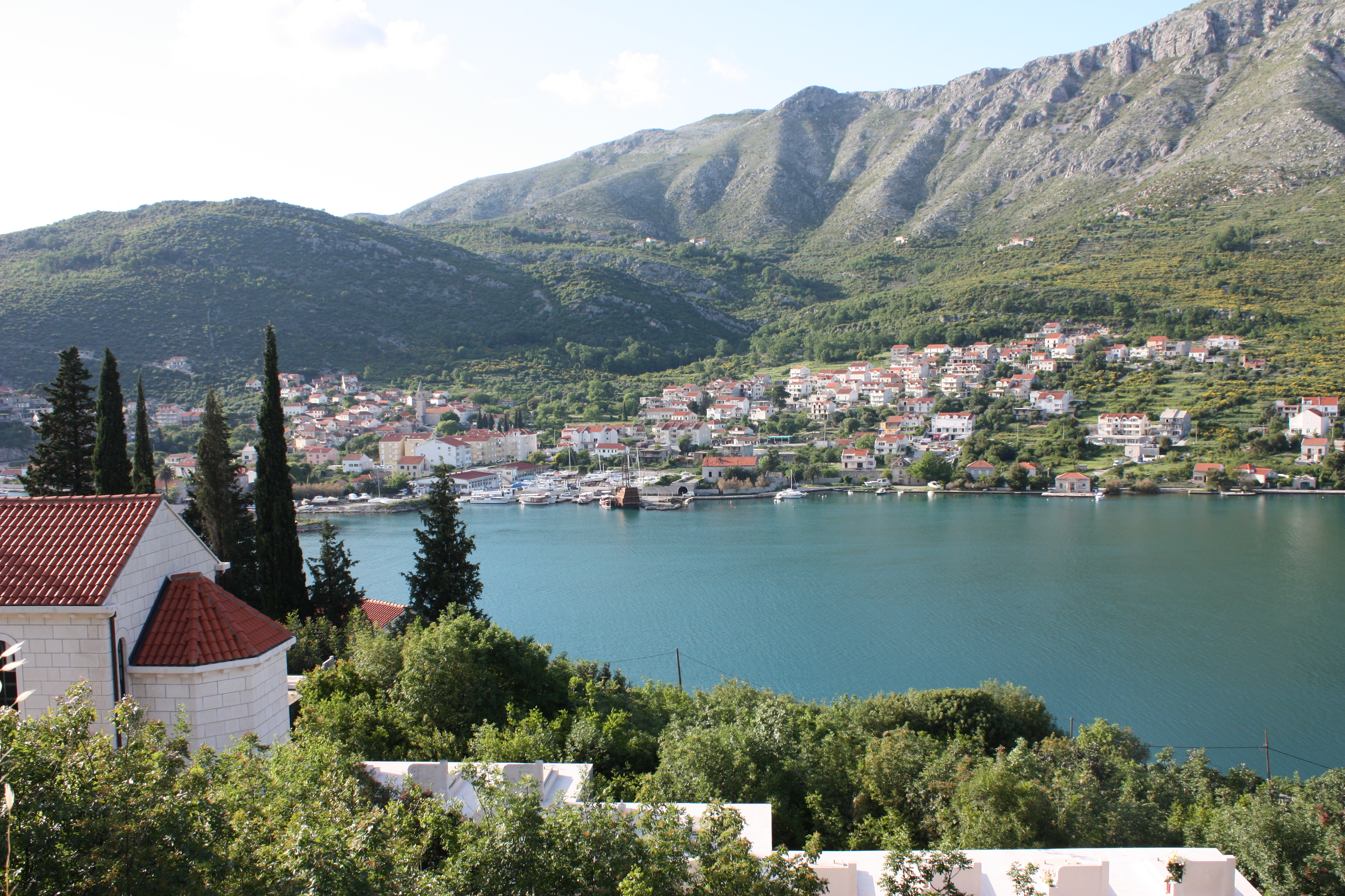 Stara Mokošica (Old Mokošica) near Dubrovnik